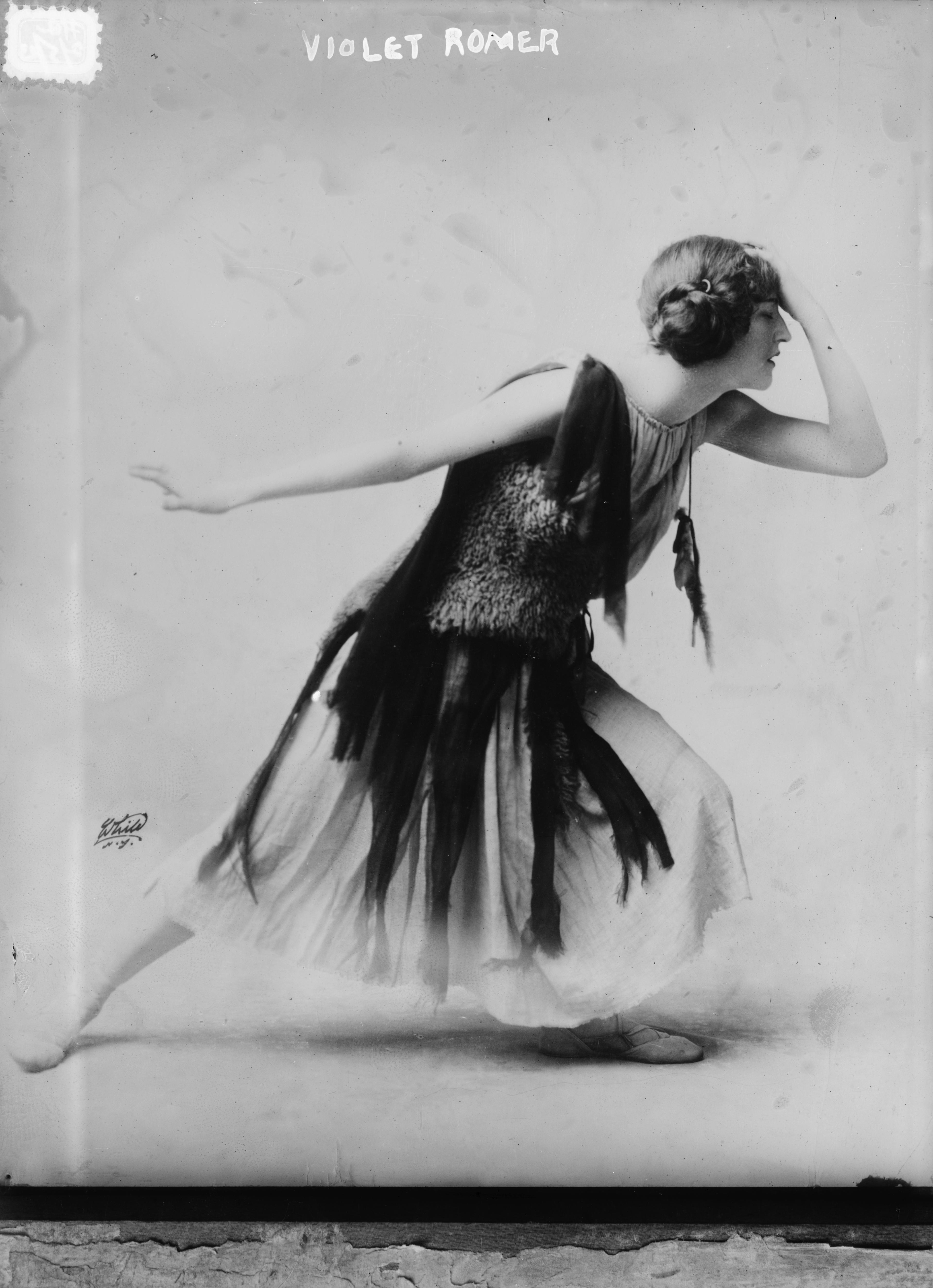 Violet Romer in flapper dress